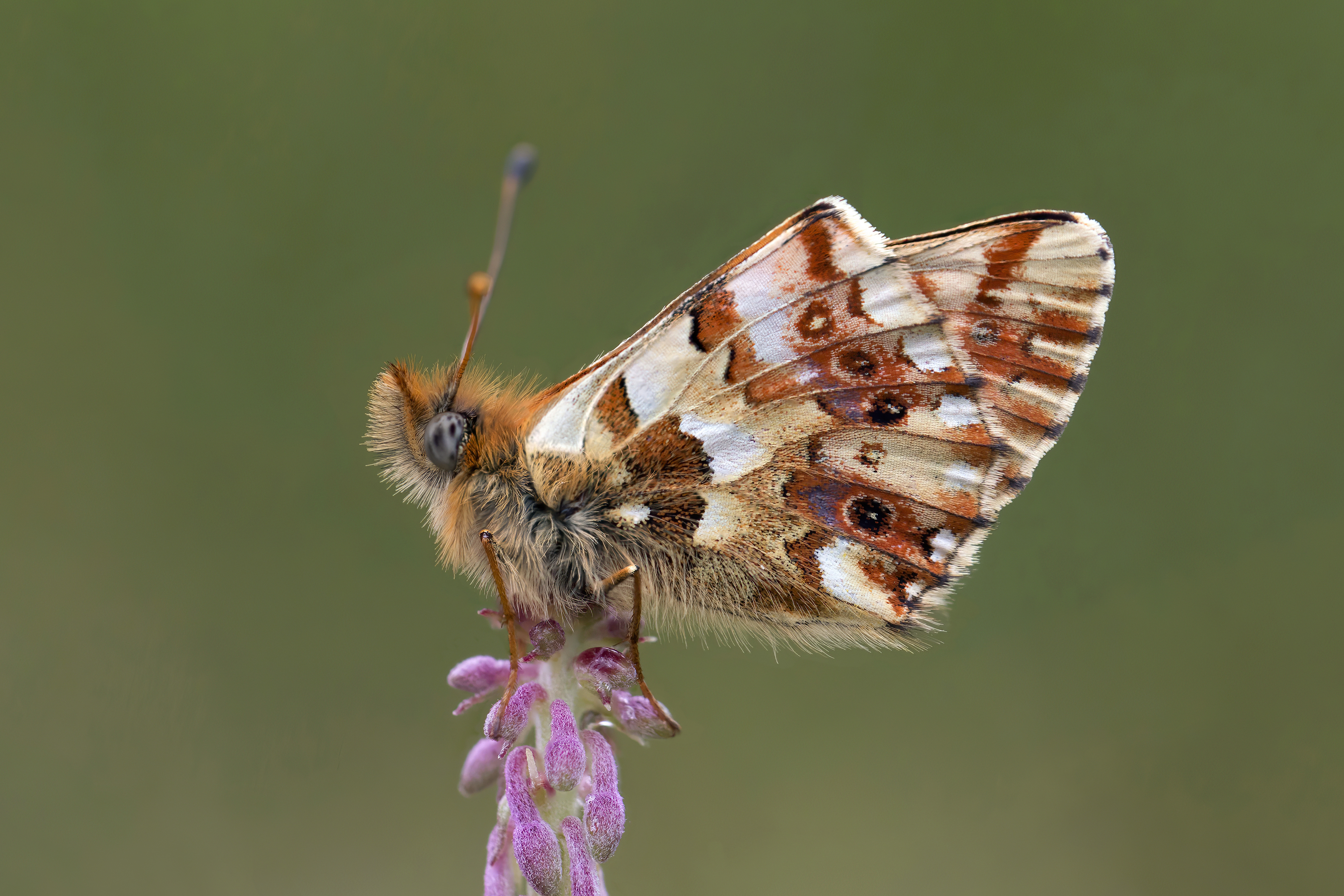 Balkan fritillary (Boloria graeca balcanica), Yastrebets, Rila Mountains, Bulgaria on epilobium